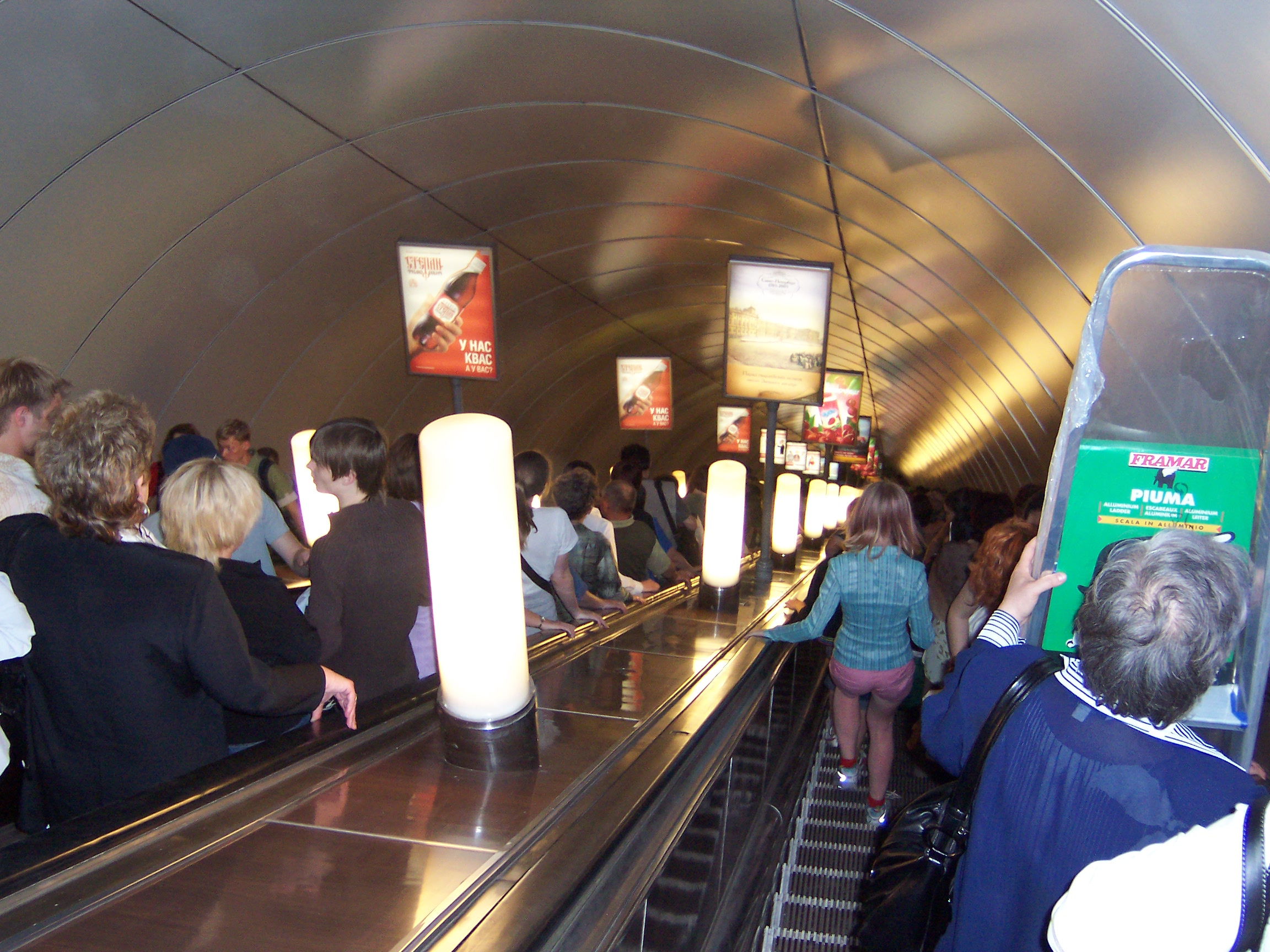 Station Nevsky Prospekt - Saint Petersburg-Juny 2005